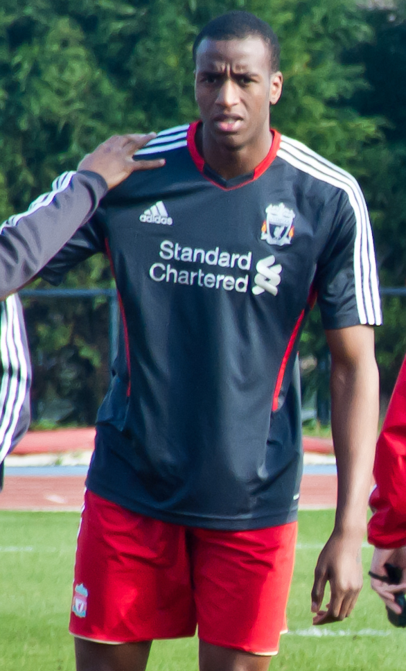 Michael Ngoo playing for Liverpool FC Reserves.